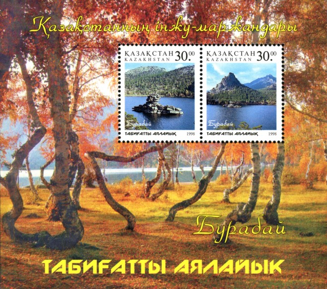 Stamp of Kazakhstan